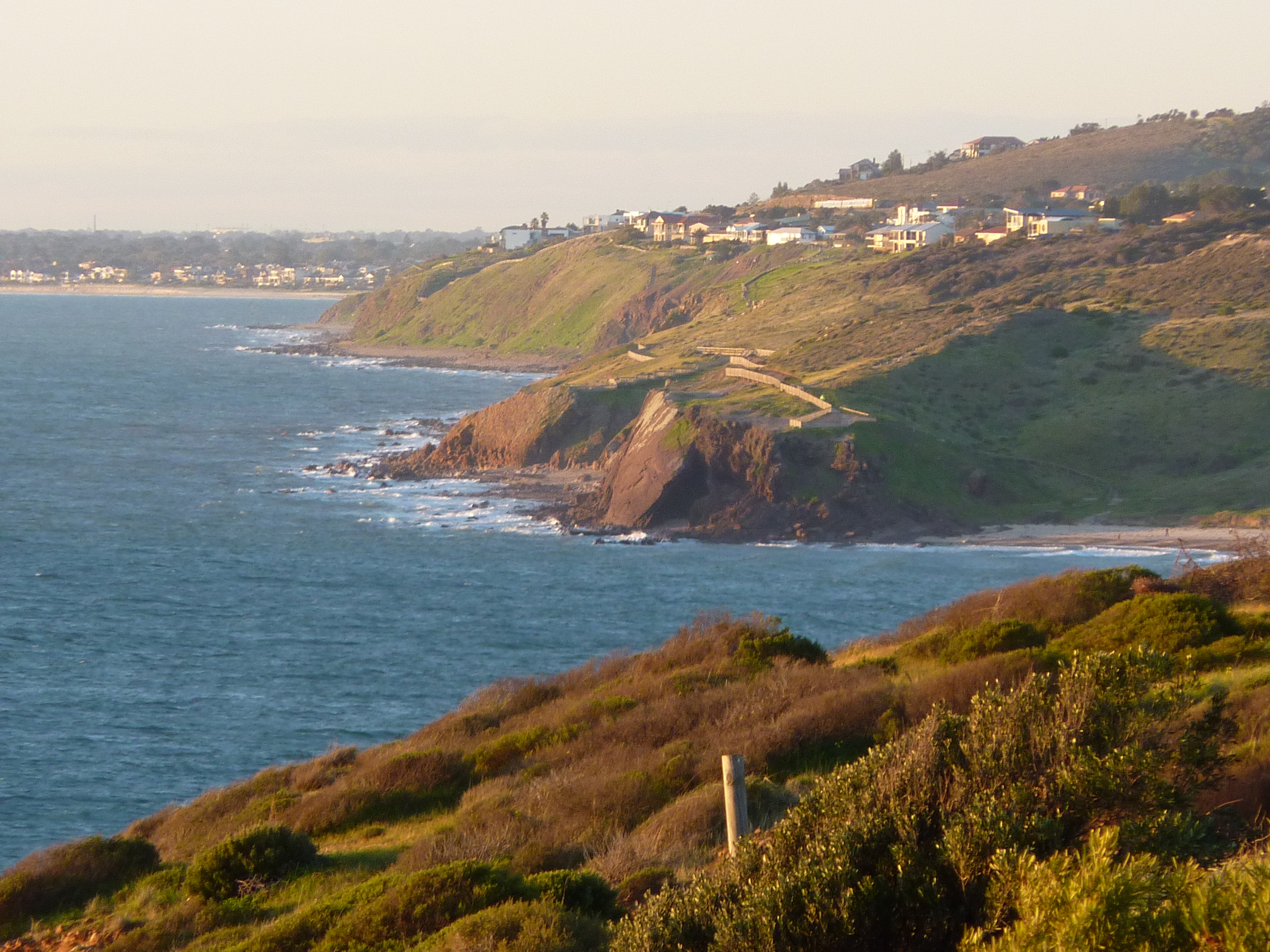 The town of Hallett Cove, South Australia, seen from the south